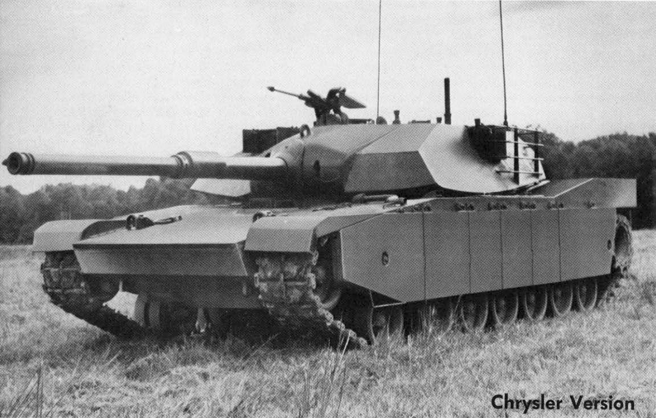 Chrysler XM1 Tank System prototype.